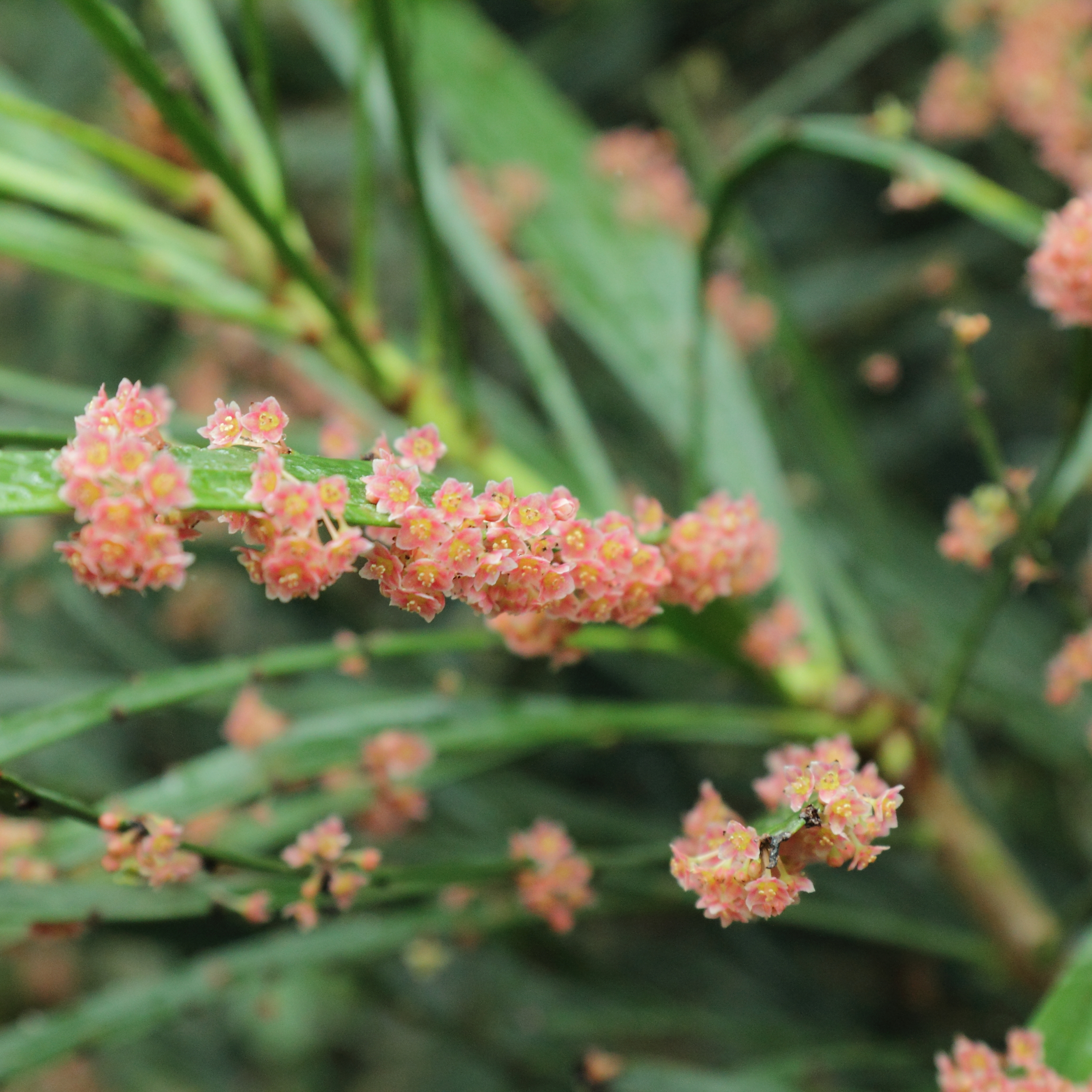 Phyllanthus angustifolius at Uppsala Botanic Gardens